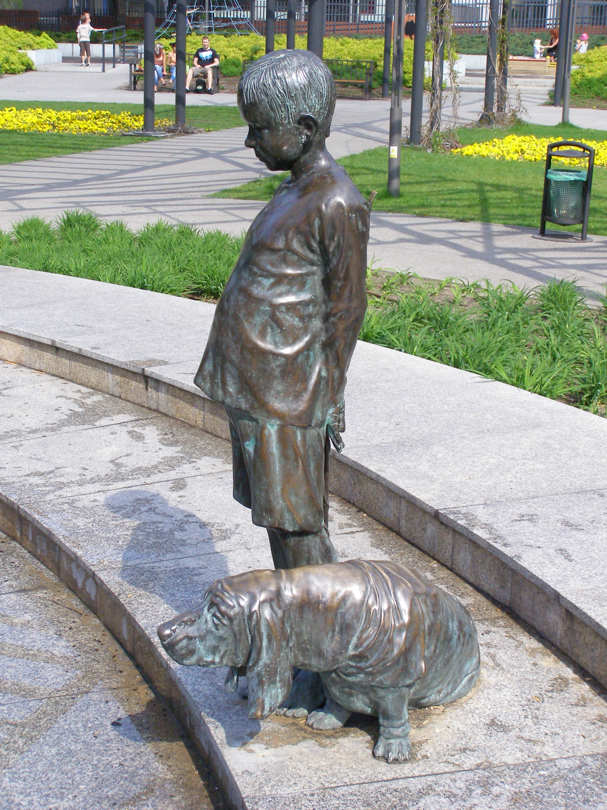 Poznań - statue of a boy with a dog in the fountain in the Zielone Ogródki square